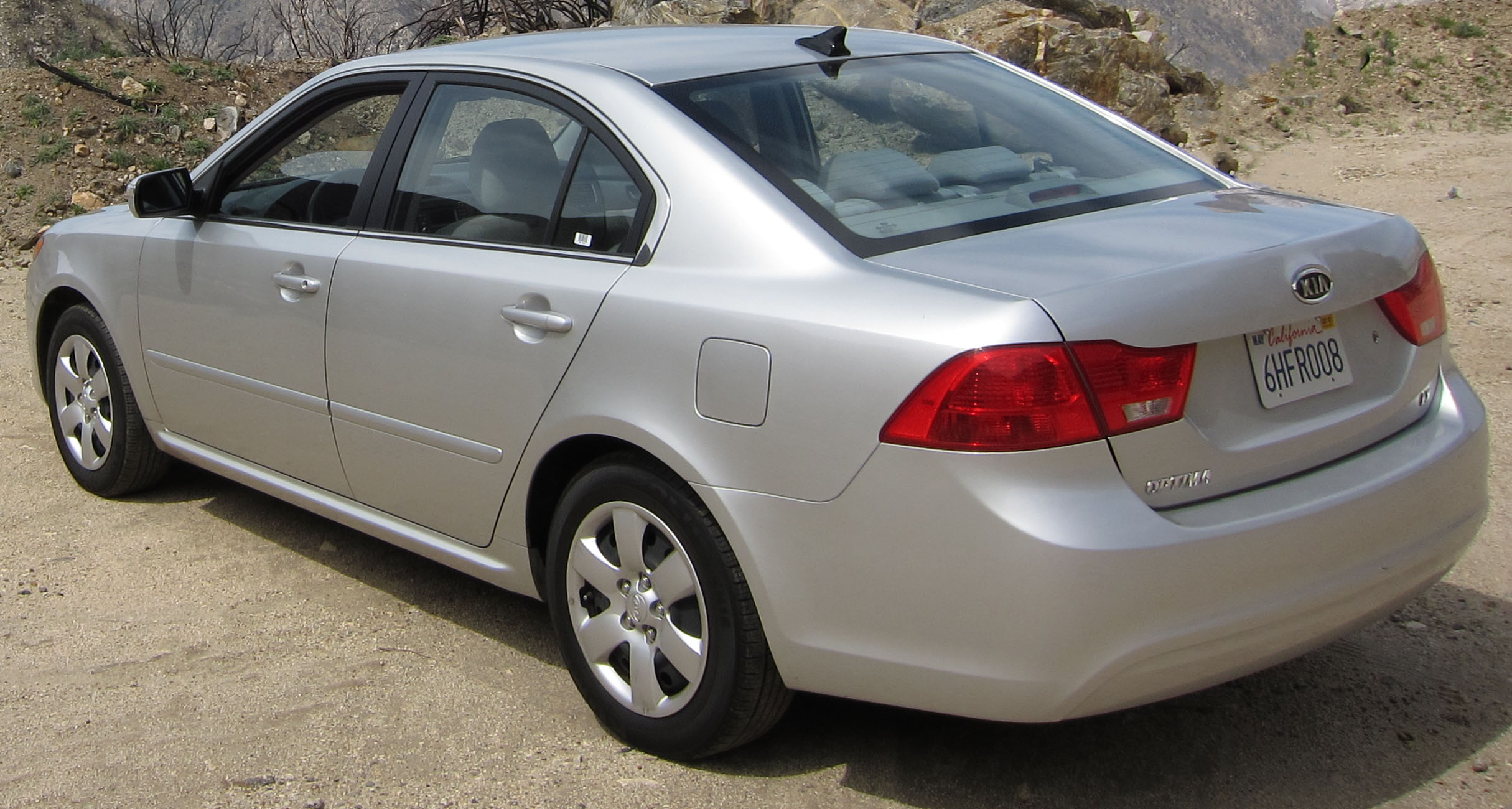 2009-2010 Kia Optima (MG) LX sedan, photographed in the United States of America